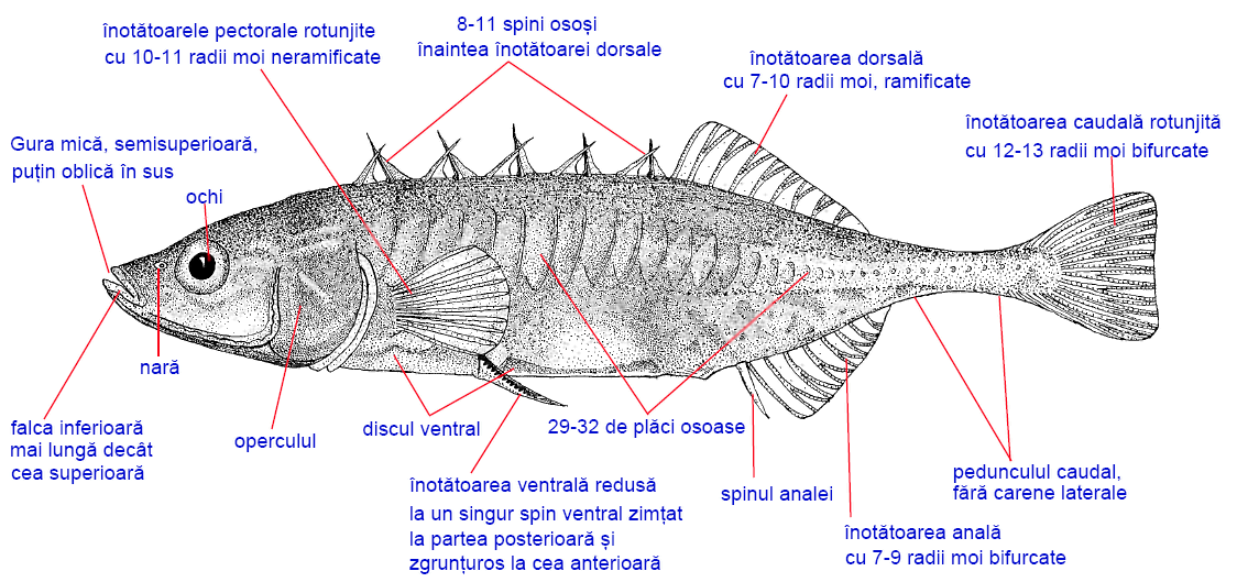 Pungitius platygaster platygaster